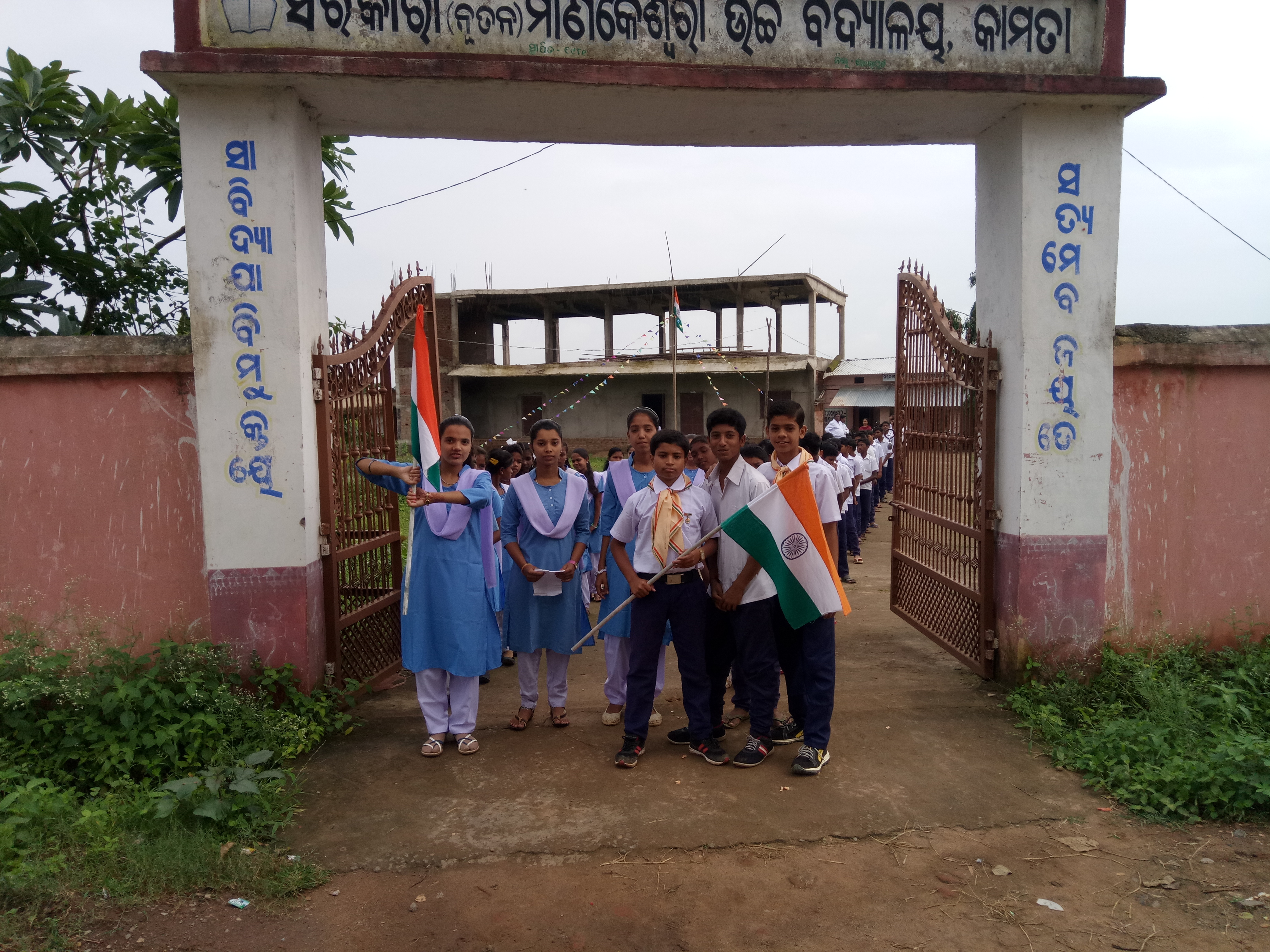 Established in -Year 1981 Management - Department of Education Type- Co-educational Medium of Instruction - Odia